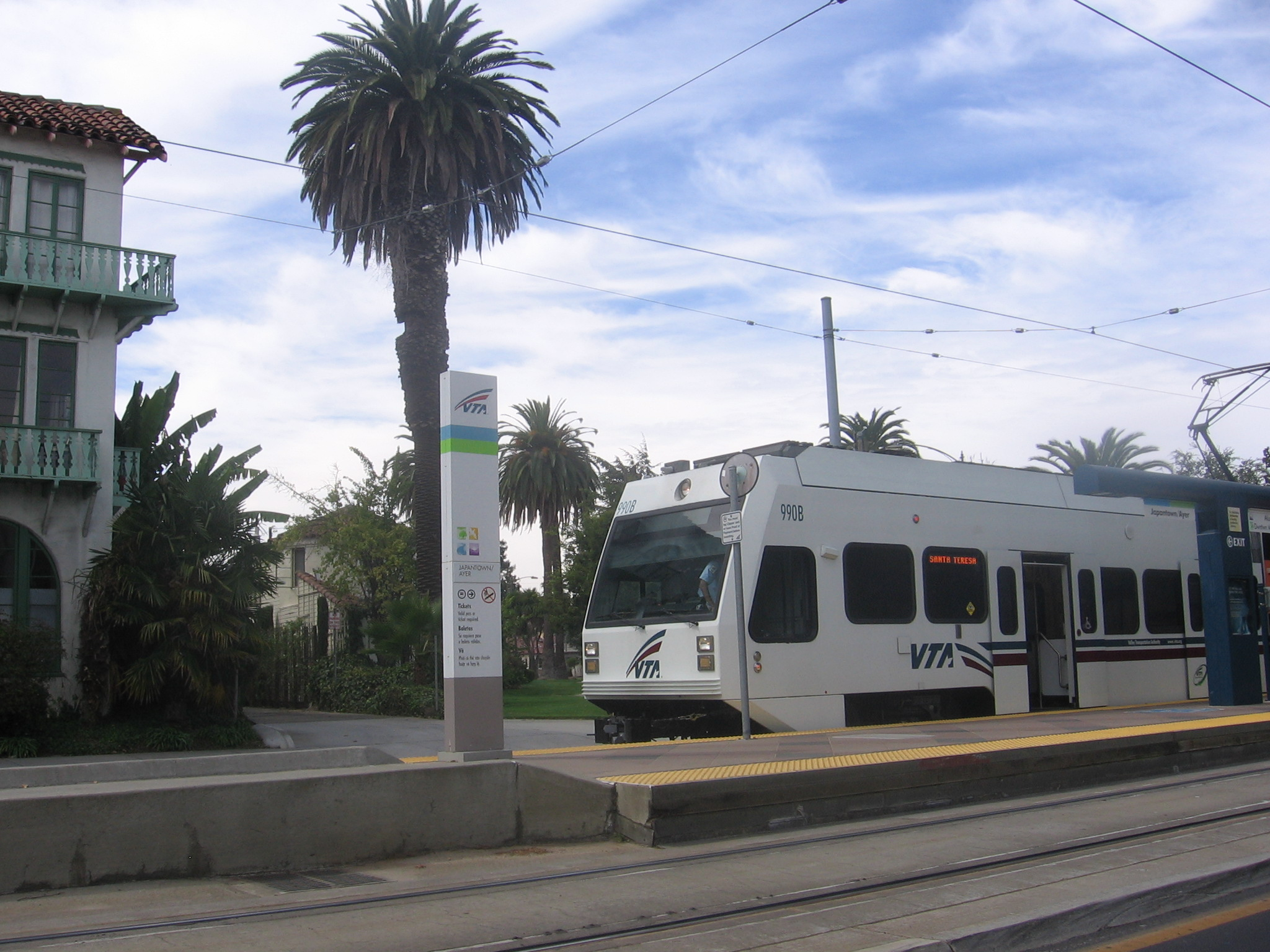 The Japantown–Ayer (VTA) light rail station in San José, California, USA.